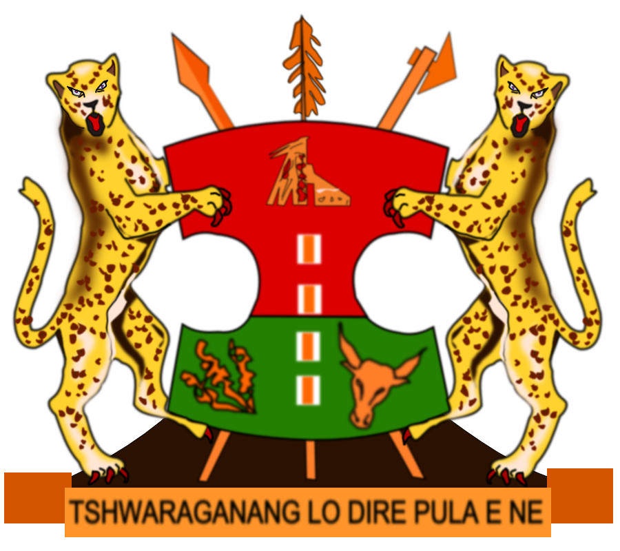 Coat of Arms of the Republic of Bophuthatswana, Southern Africa, Bantustan, Homeland, 1977-1994